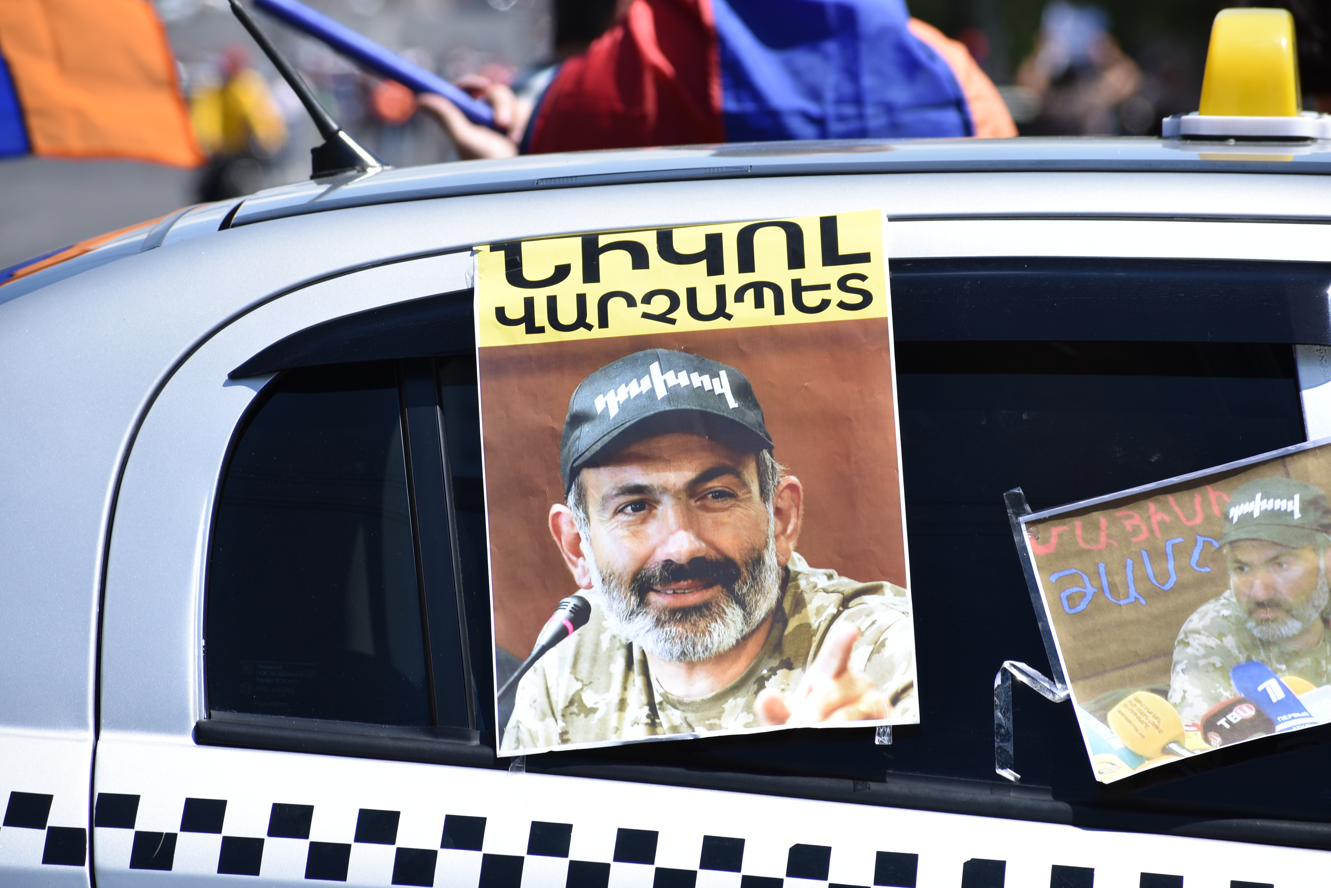 Komitas Avenue, Yerevan